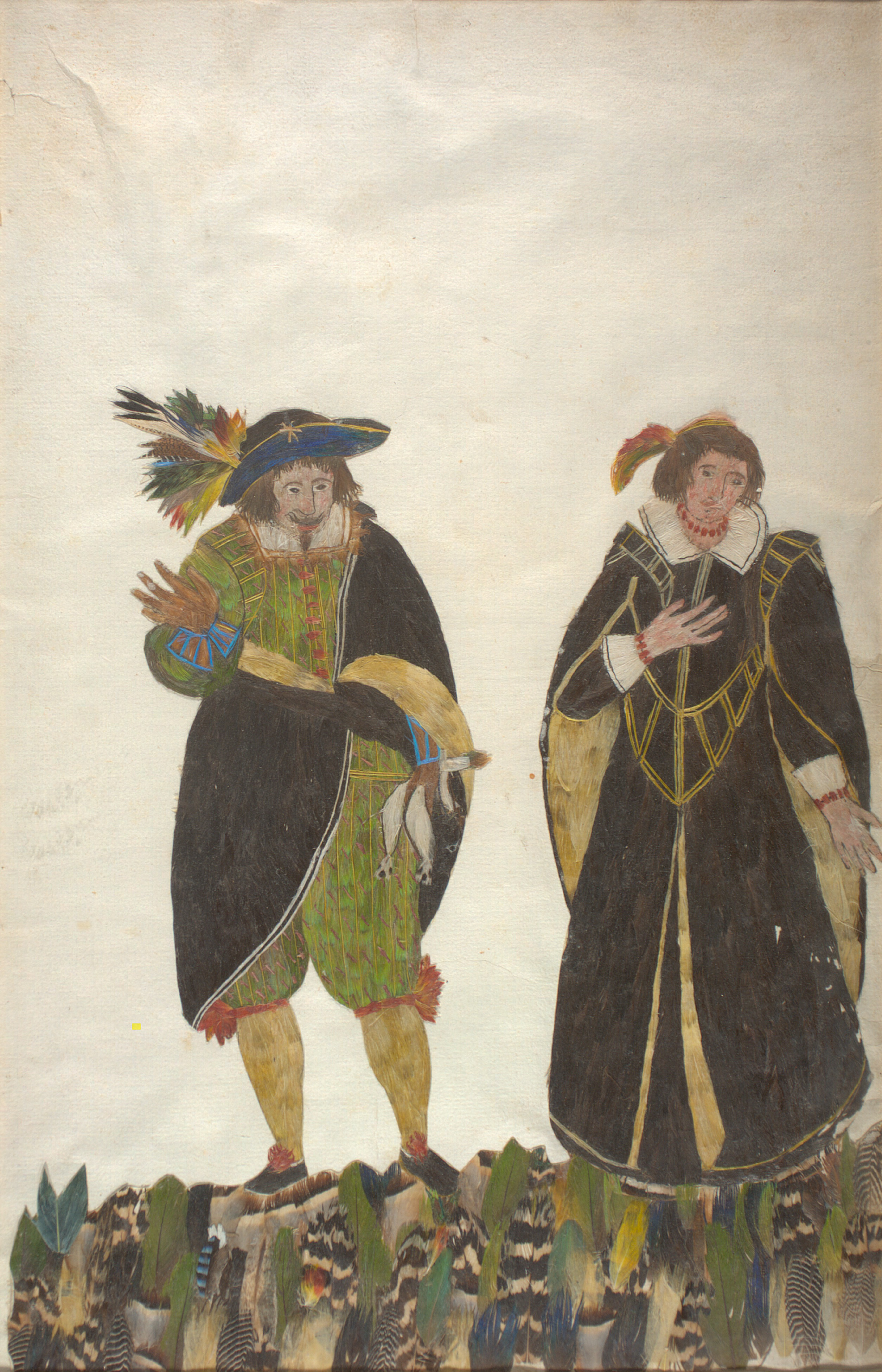 Two commedia dell'arte actors taking a bow. It is thought to depict Giovan Battista Andreini as "Lelio" and his wife Virginia Ramponi-Andreini as "Florinda". The portrait is from The Feather Book, a series of images made entirely of bird feathers. The creator was Dionisio Minaggio, the Chief Gardener of the Duchy of Milan. The book primarily contained images of birds but also contained sets of images depicting hunters, tradesmen, musicians and commedia dell'arte actors. This portrait (plate 111) is from the collection of commedia dell'arte actors.